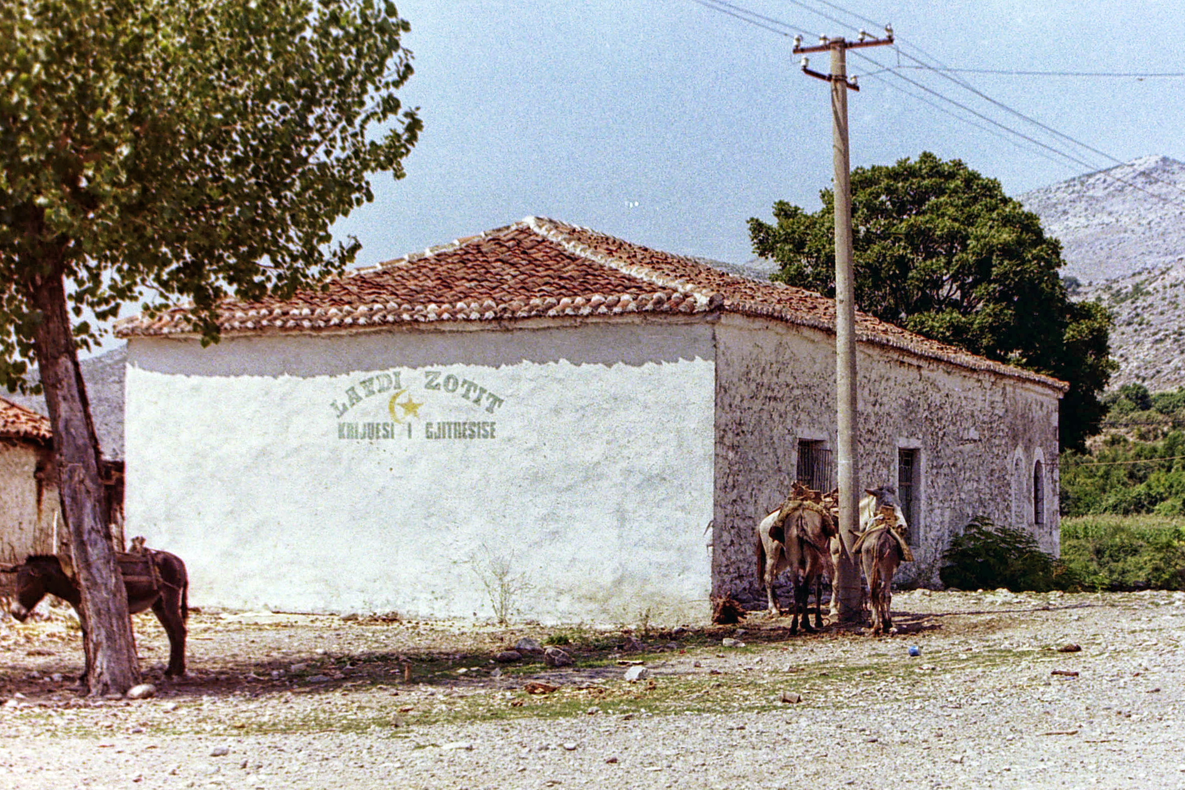 Temporary mosque in Mes in 1995